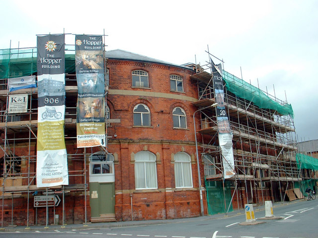 The Hopper Building. This building, situated at the junction of Brigg Road and Holydyke, was originally the head office of the Hopper Bicycle Company. It is now being converted to residential apartments.